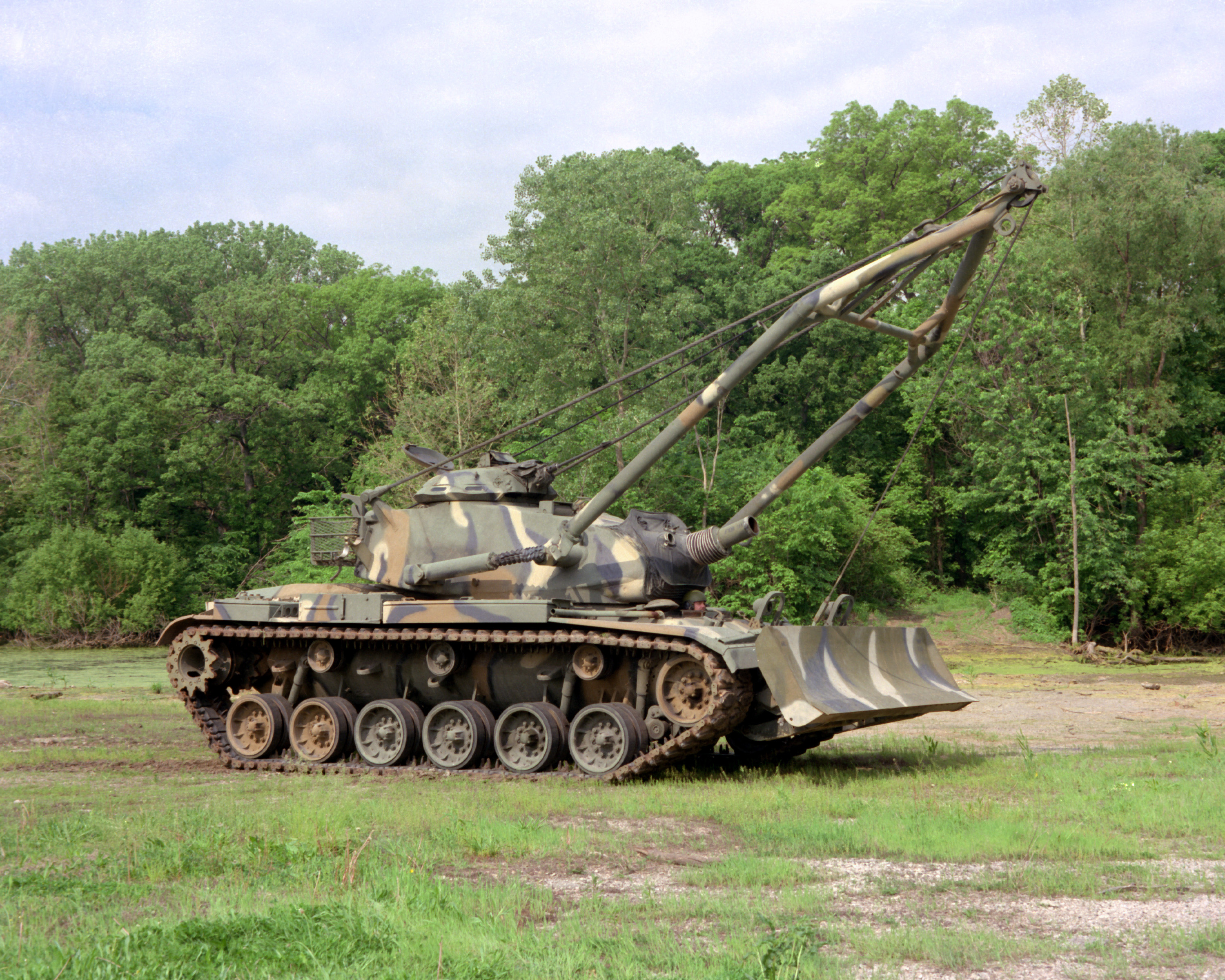 A right side view of an M-728 Combat Engineer Vehicle.